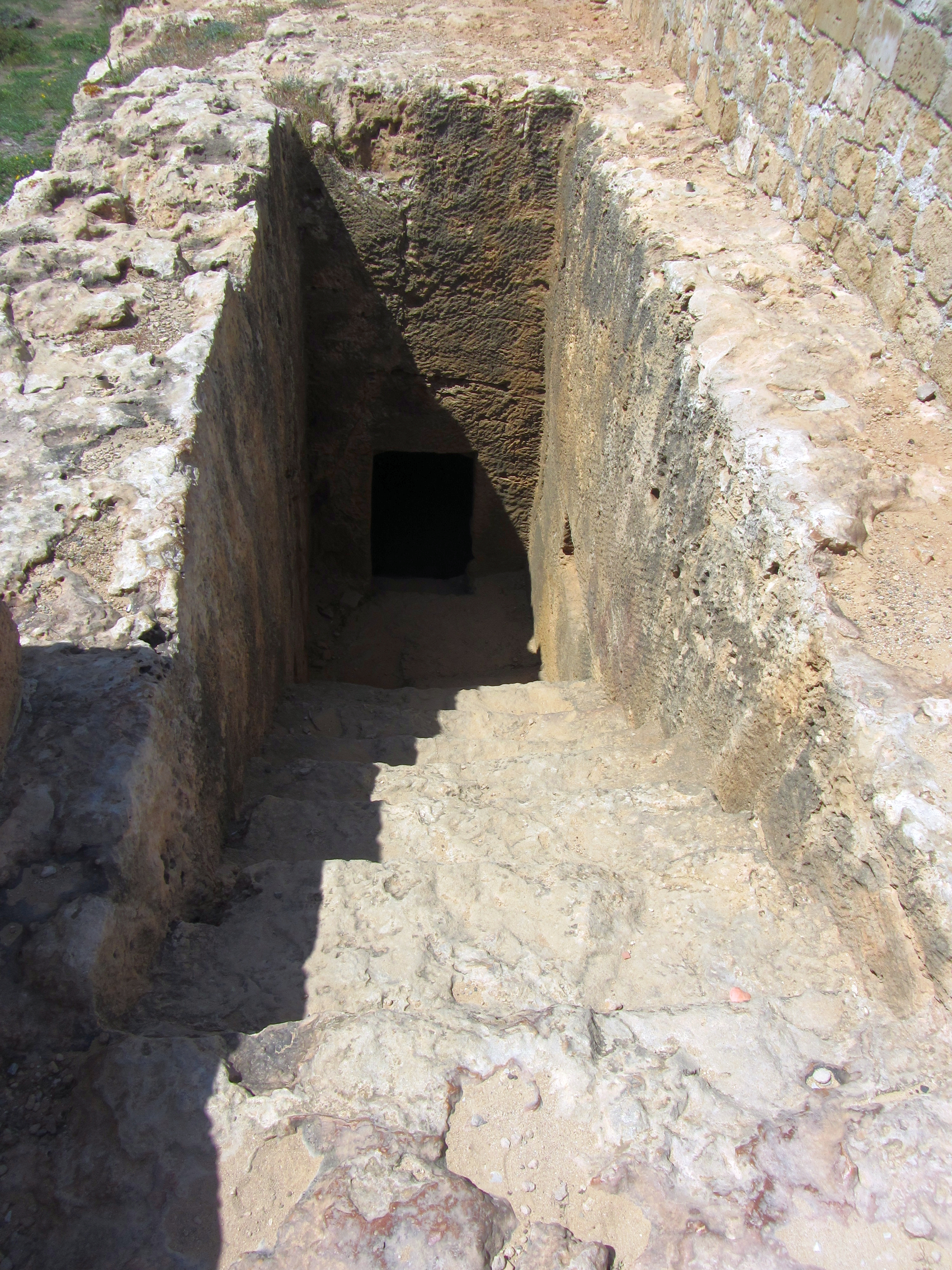 Paphos (Cyprus). Tombs of the Kings: Tomb 3, dromos.